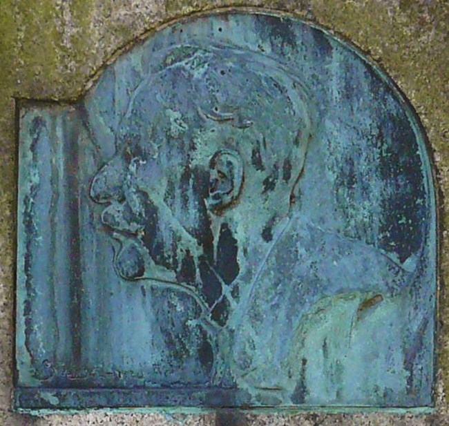 Bernard Milski Tomb, Poznan.